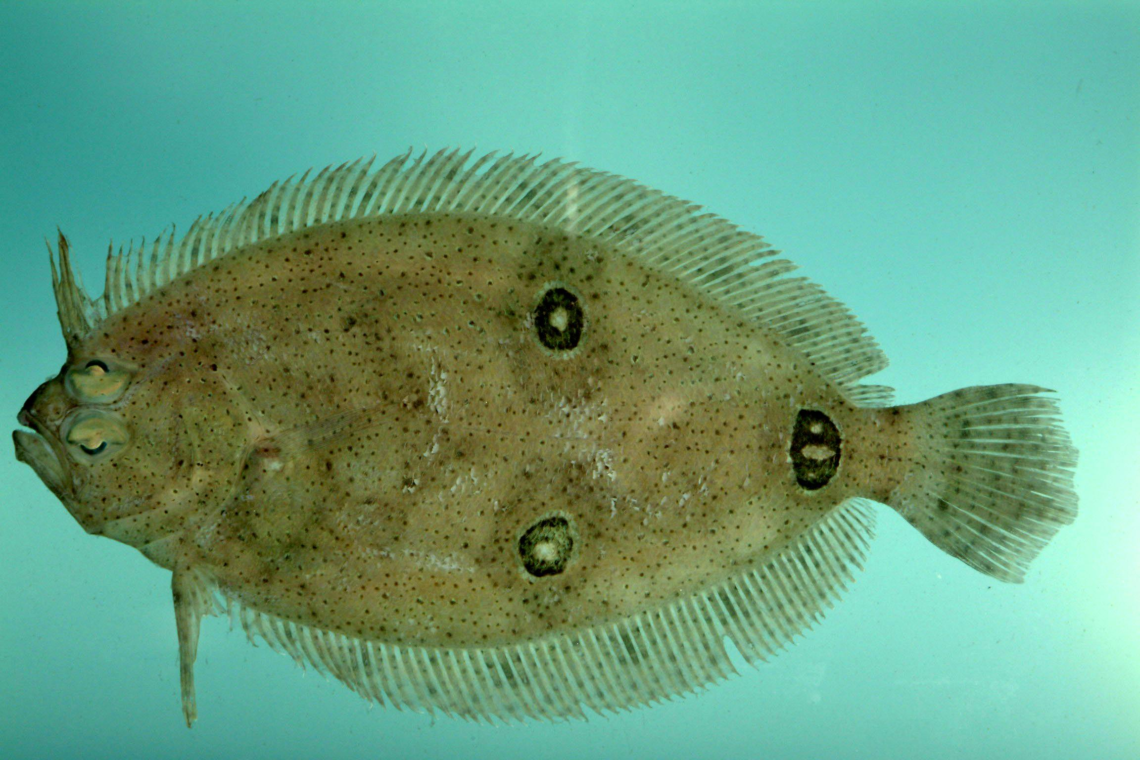 Three-eye flounder ( Ancylopsetta dilecta ). Gulf of Mexico.